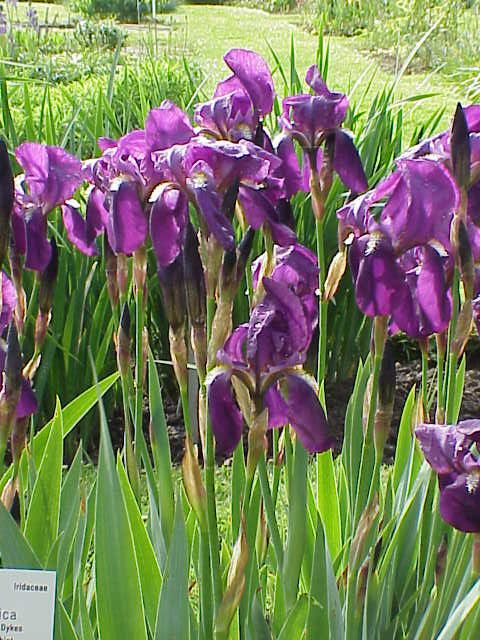 Species: Iris germanica Family: Iridaceae Image No. 11